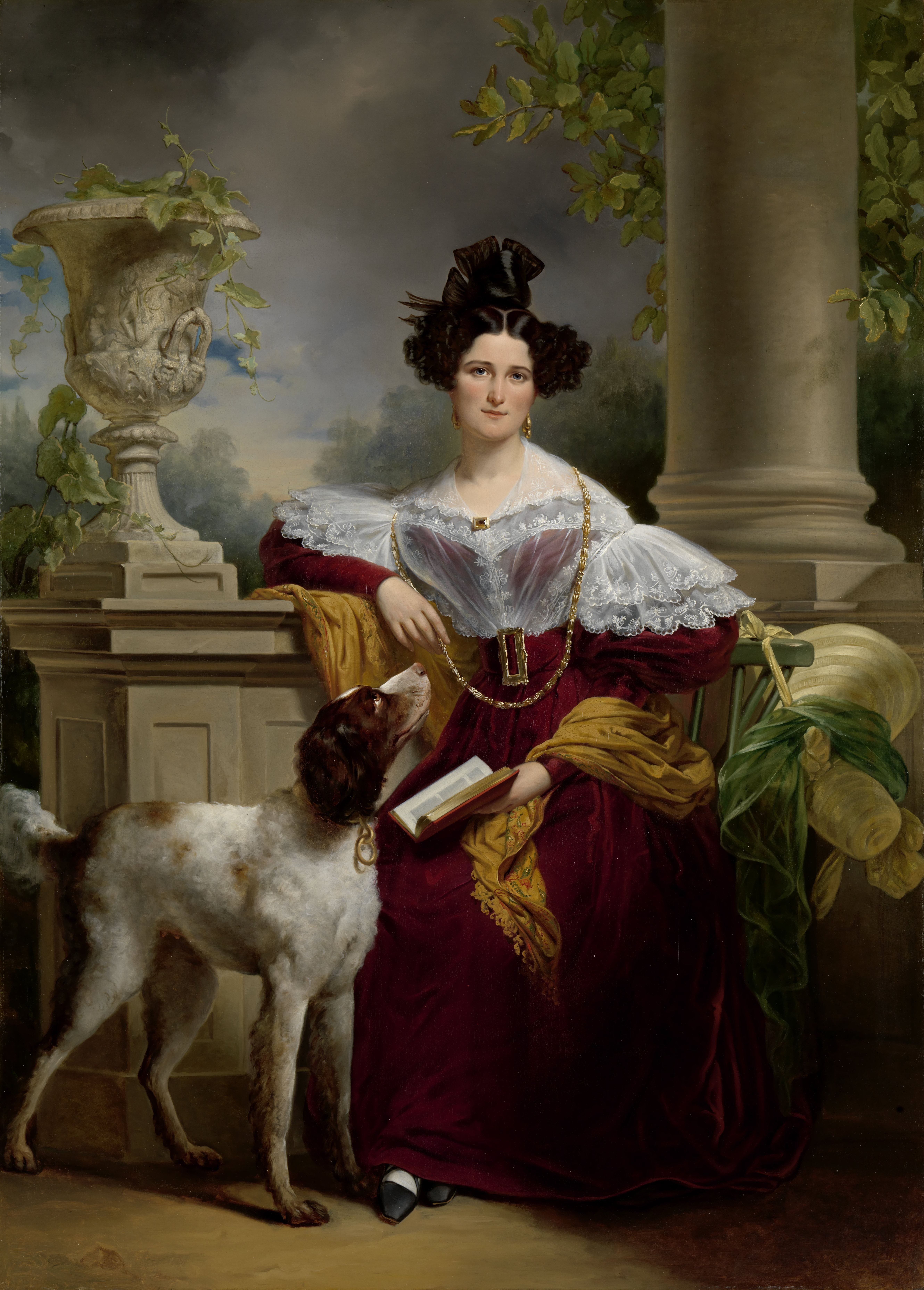 Mrs Provo Kluit-Assink oil on canvas 206 x 149 cm 19th century